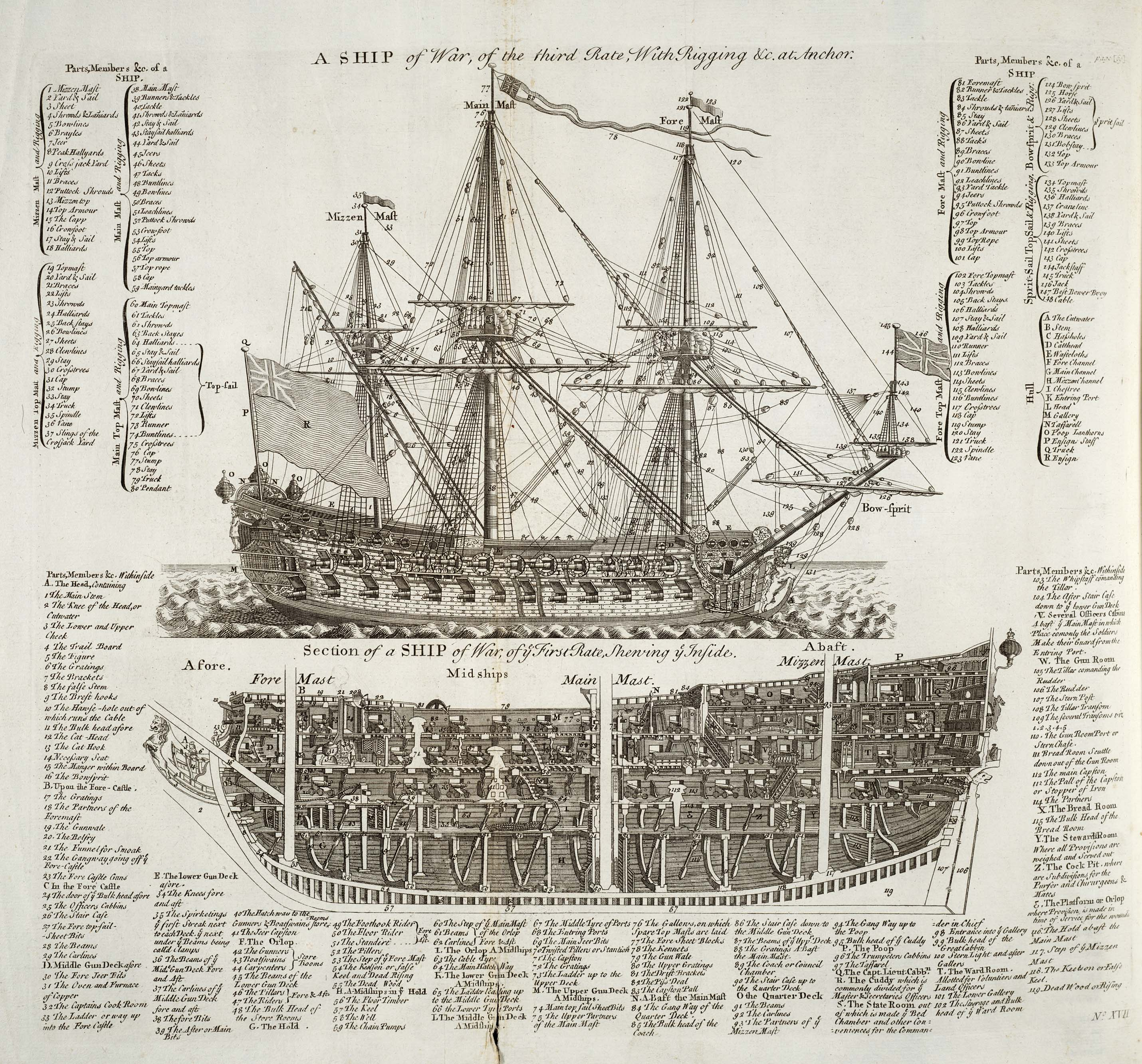 Diagram of a warship "A SHIP of War, of the third Rate" and "Section of a SHIP of War, of first Rate"